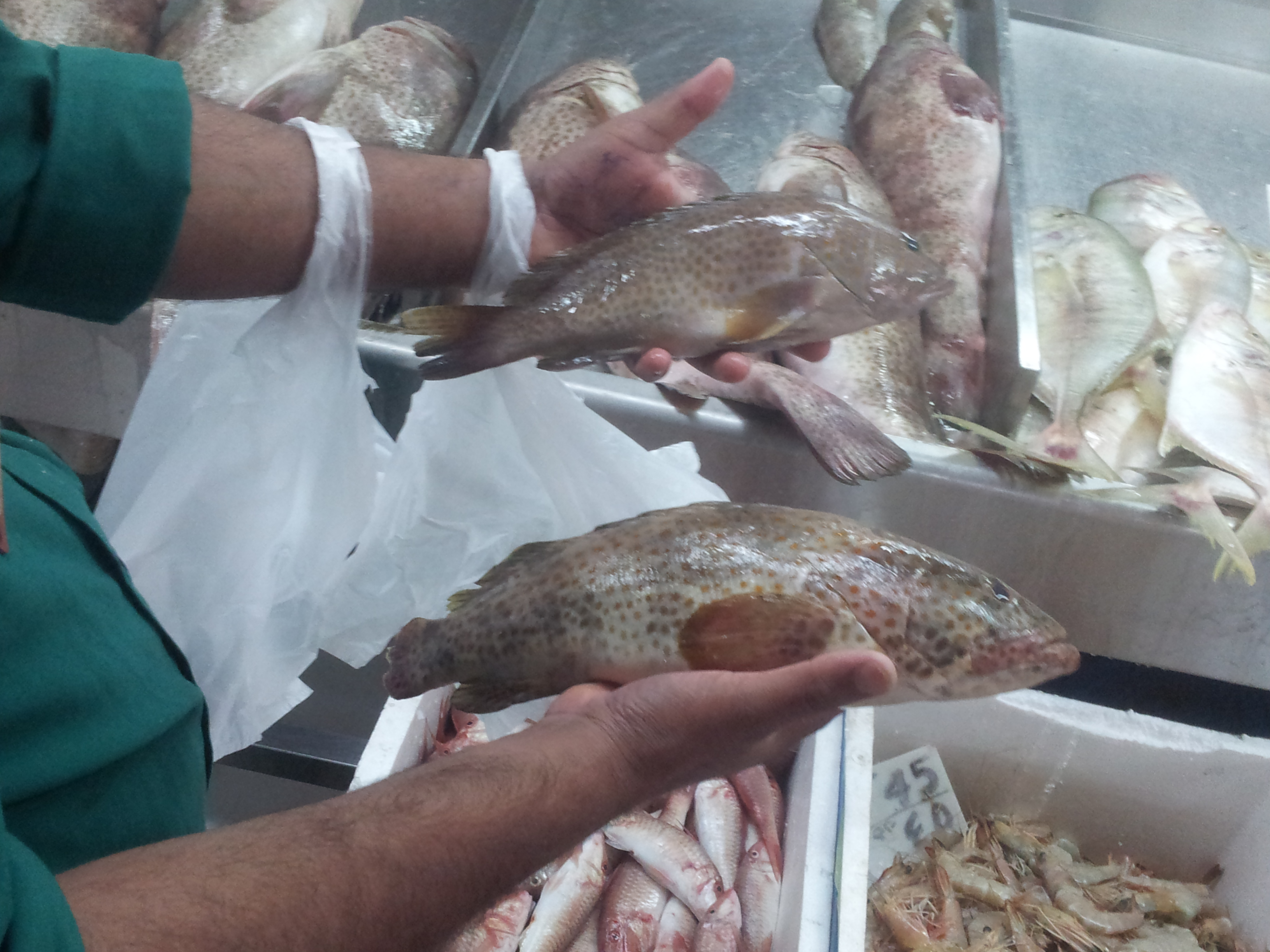 This photo shows two varieties of juvenile Hamour, or Grouper, fish, which are on sale at the Doha Fish Market.